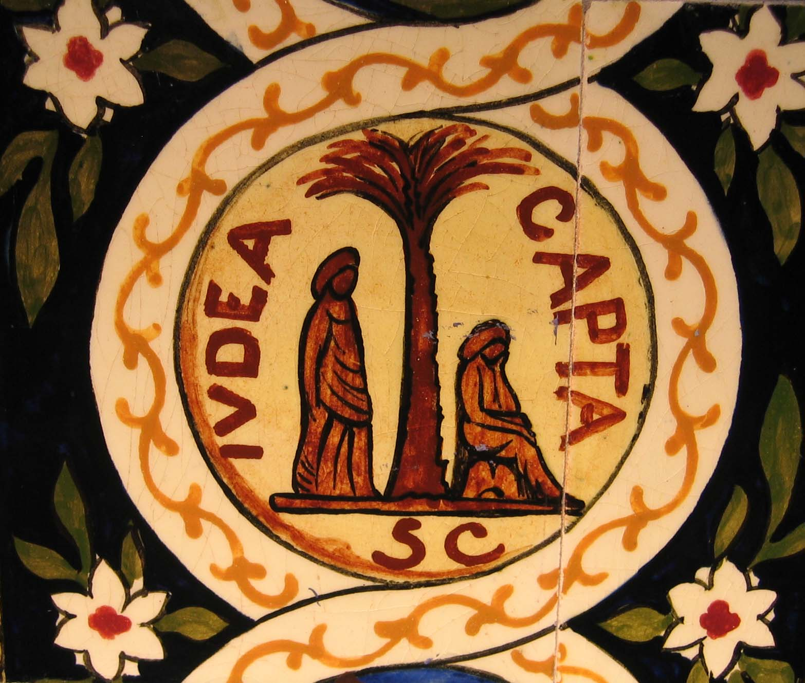 IVDAEA CAPTA - Ceramics Tiles in Beit Bialik, Tel Aviv-Yaffo.